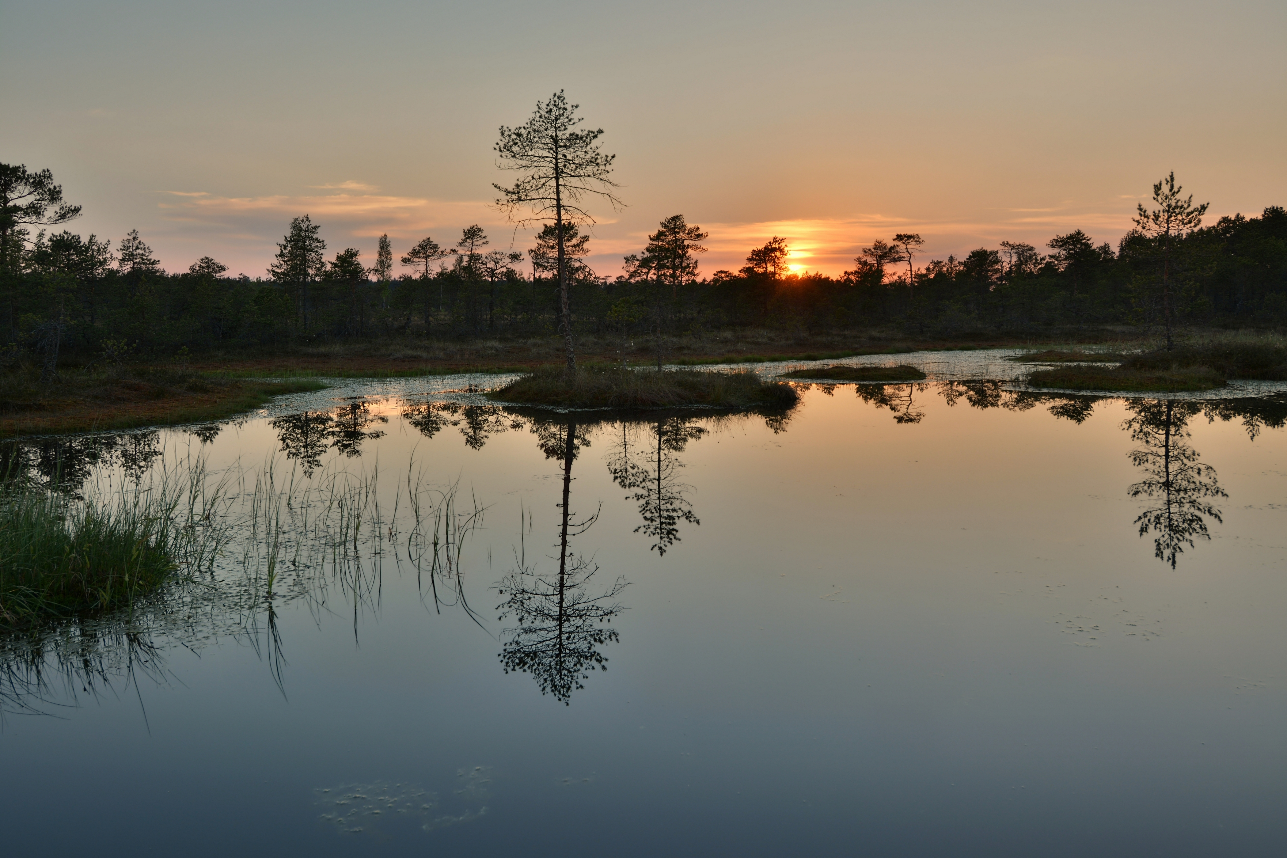 Mõrdama bog